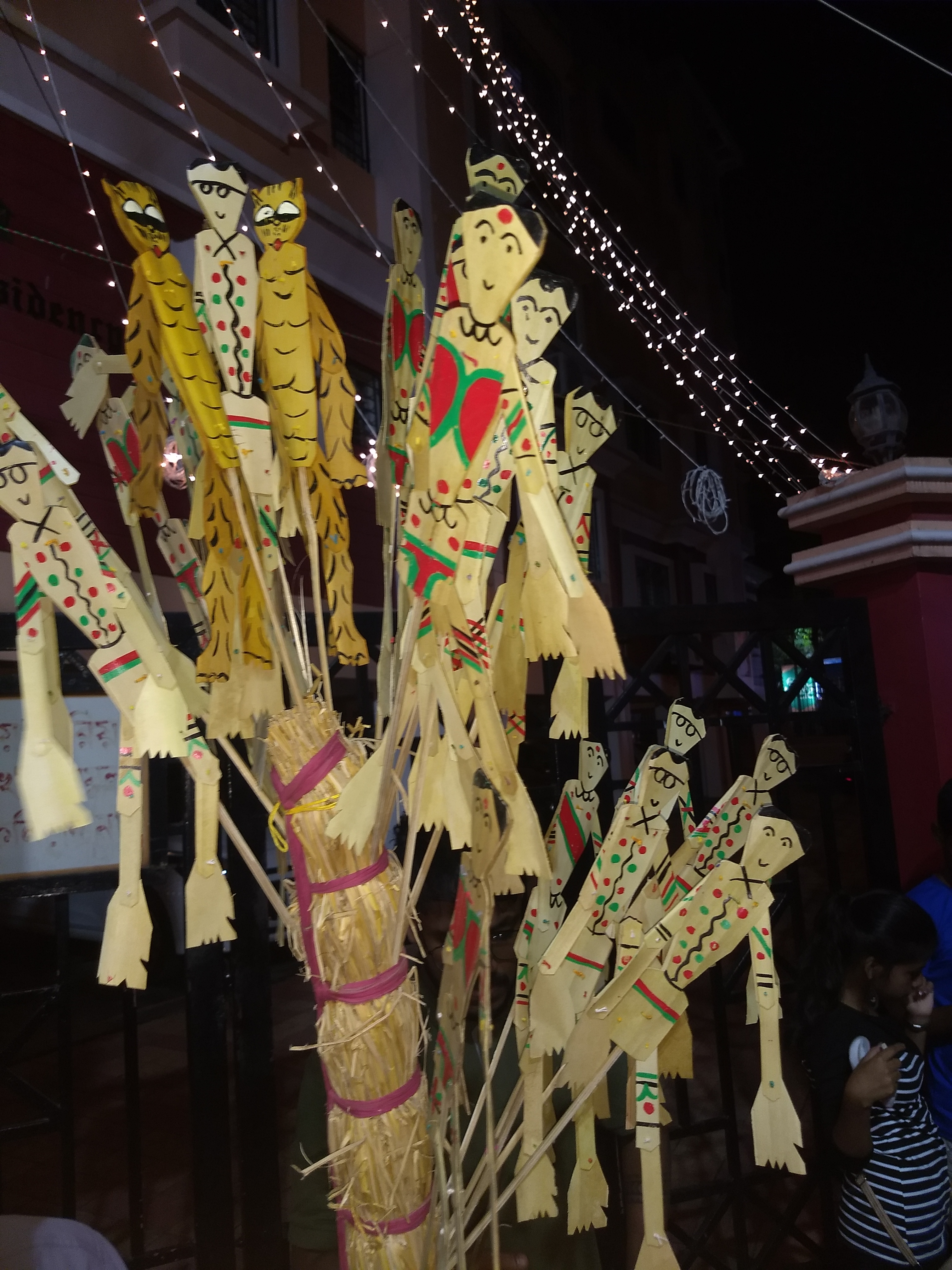 তালপাতার সেপাই